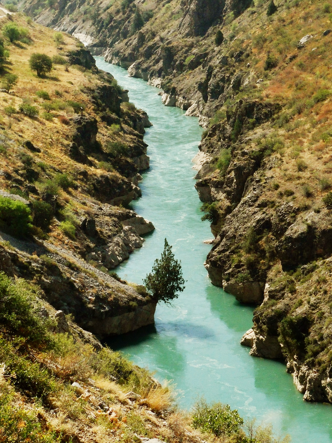 река Чаткал, нижнее течение, Ташкентская область, Узбекистан